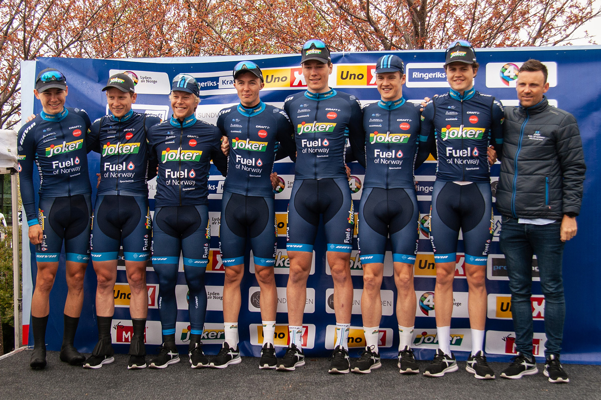 Sundvolden Grand Prix 2019, team presentation Joker Fuel of Norway.